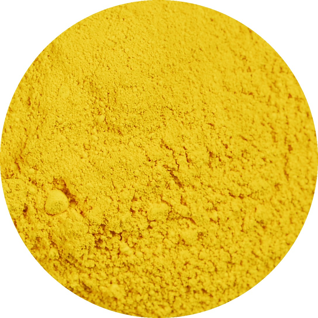 Azo yellow PY74